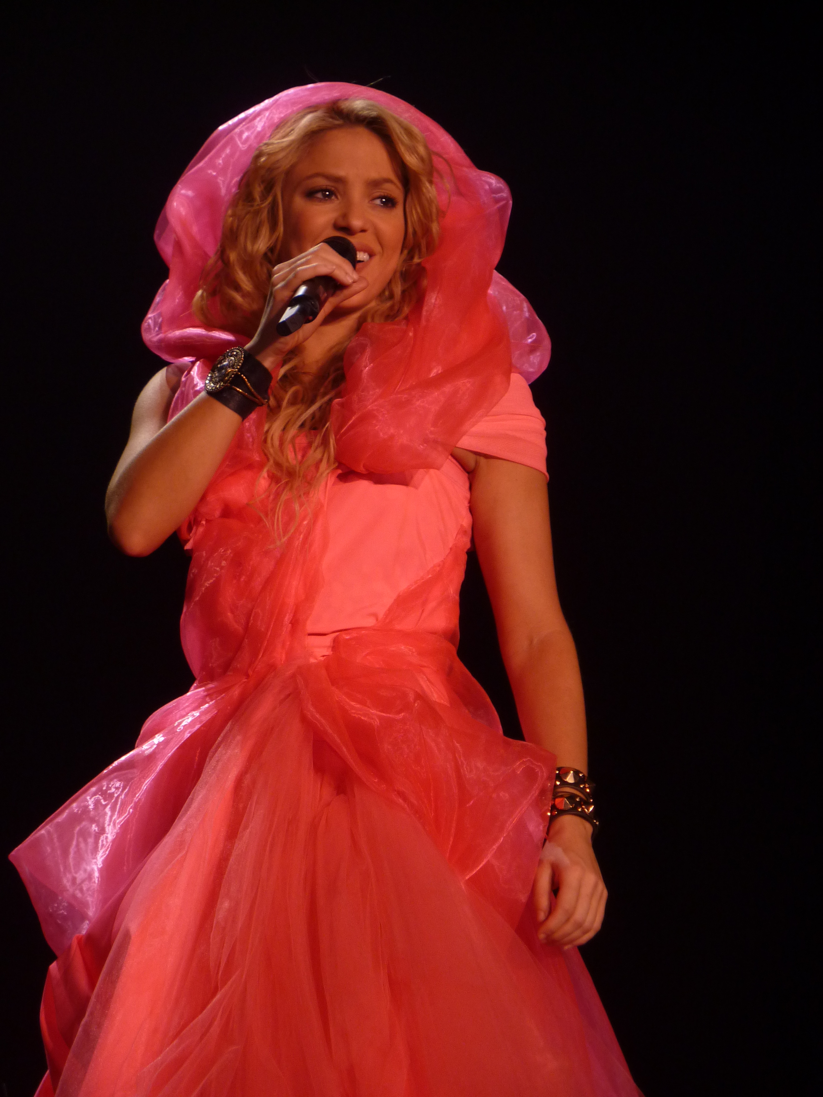 Shakira in concert in Palais Omnisports de Paris-Bercy, Paris in 2010.